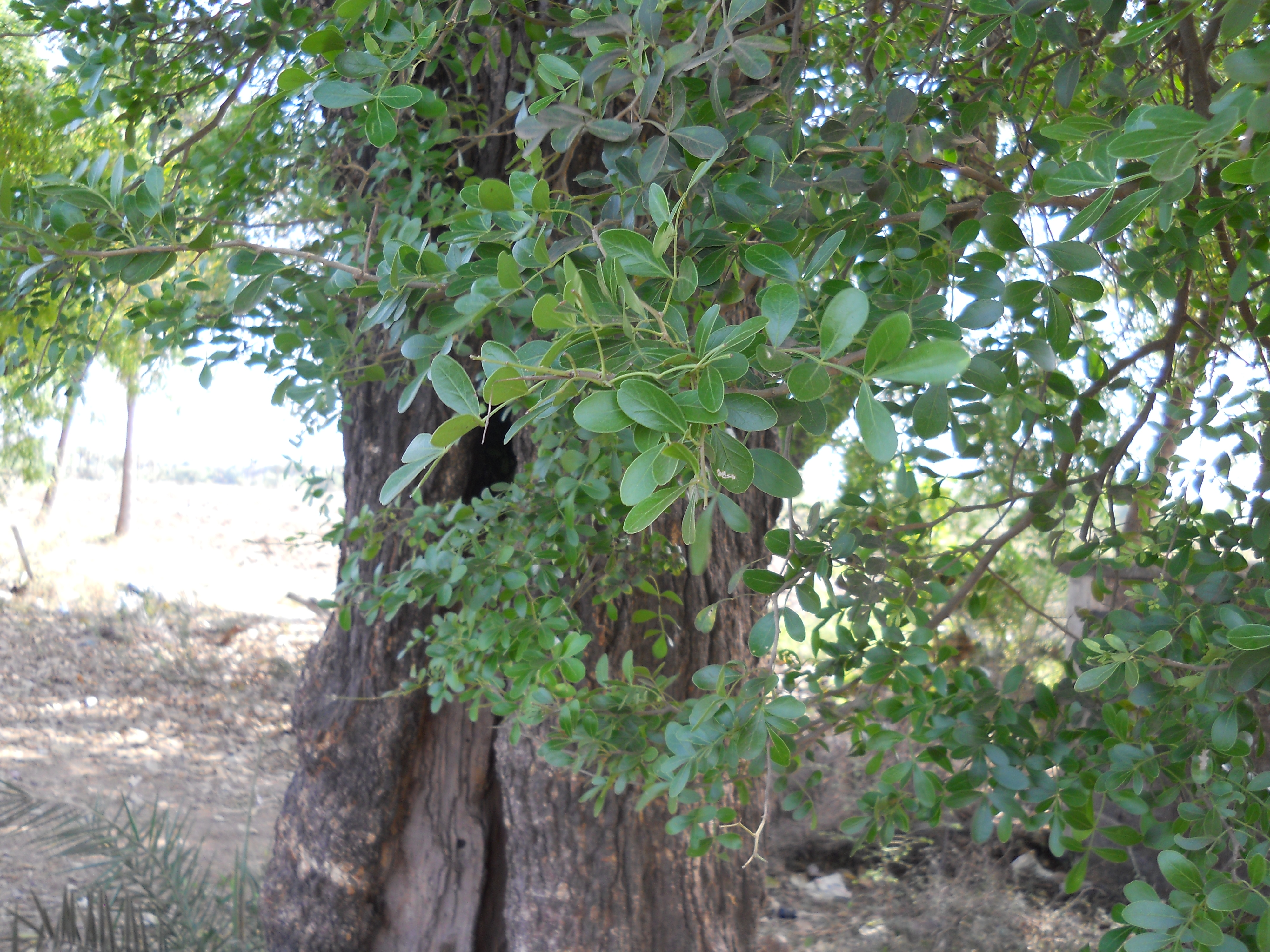 Tree hollow